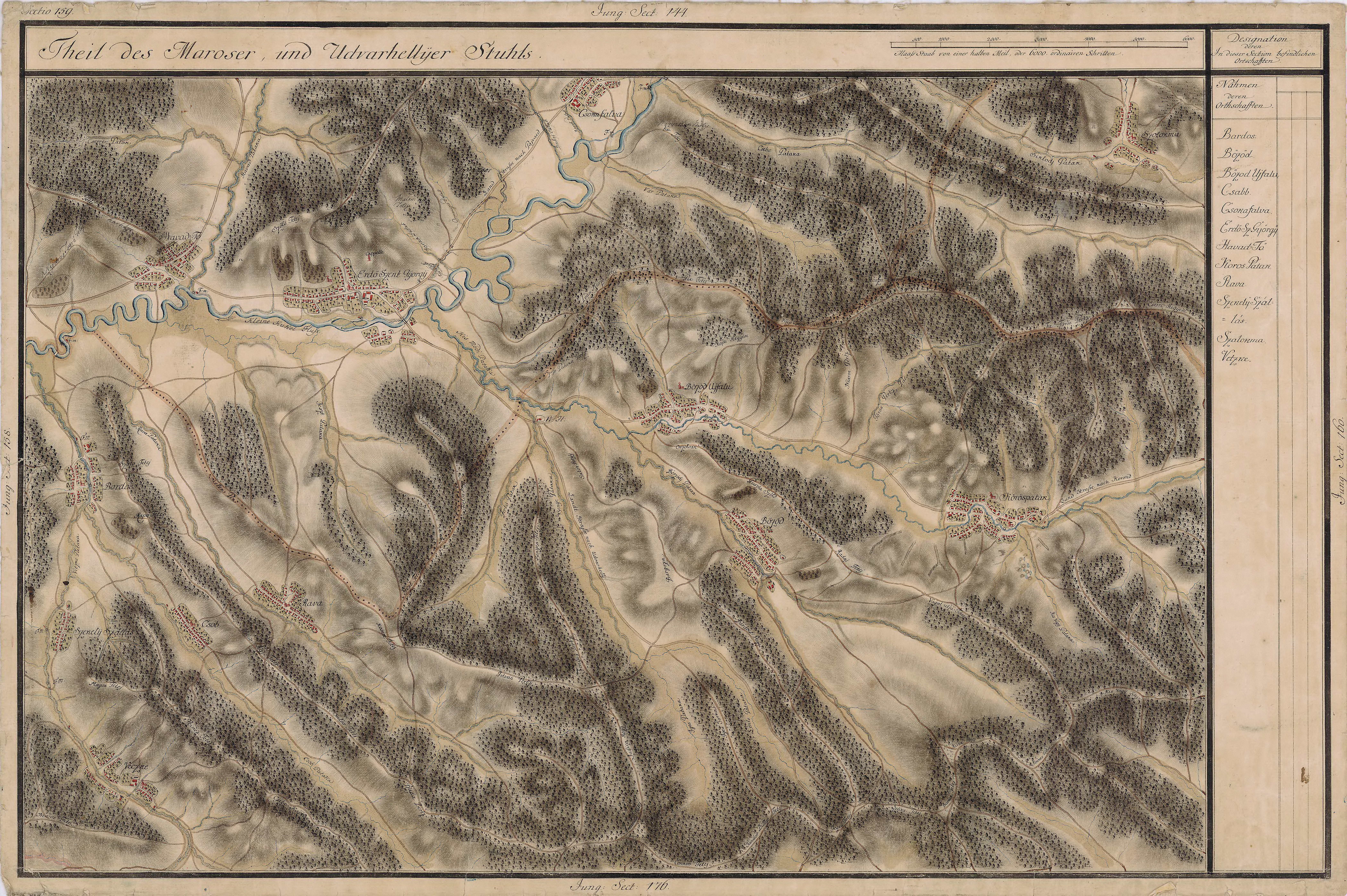 Grand Duchy of Transylvania, 1769-1773. Josephinische Landaufnahme pg.159